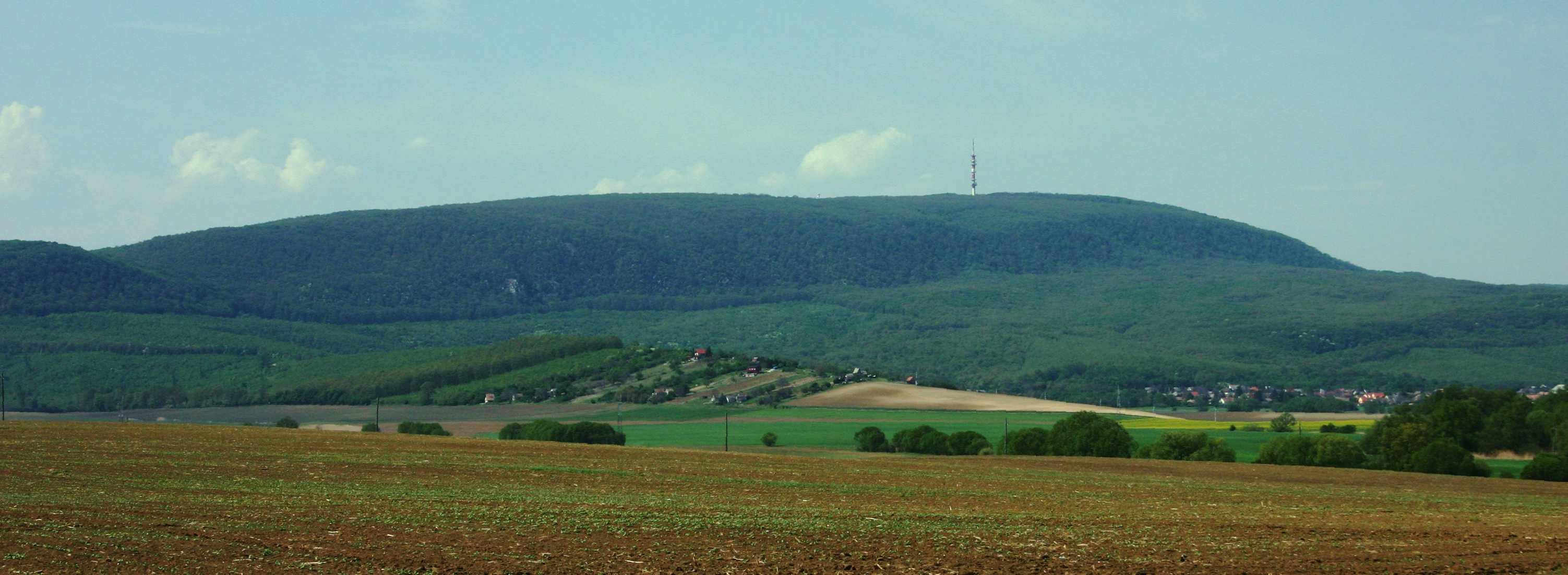 Gerecse Hill, Hungary